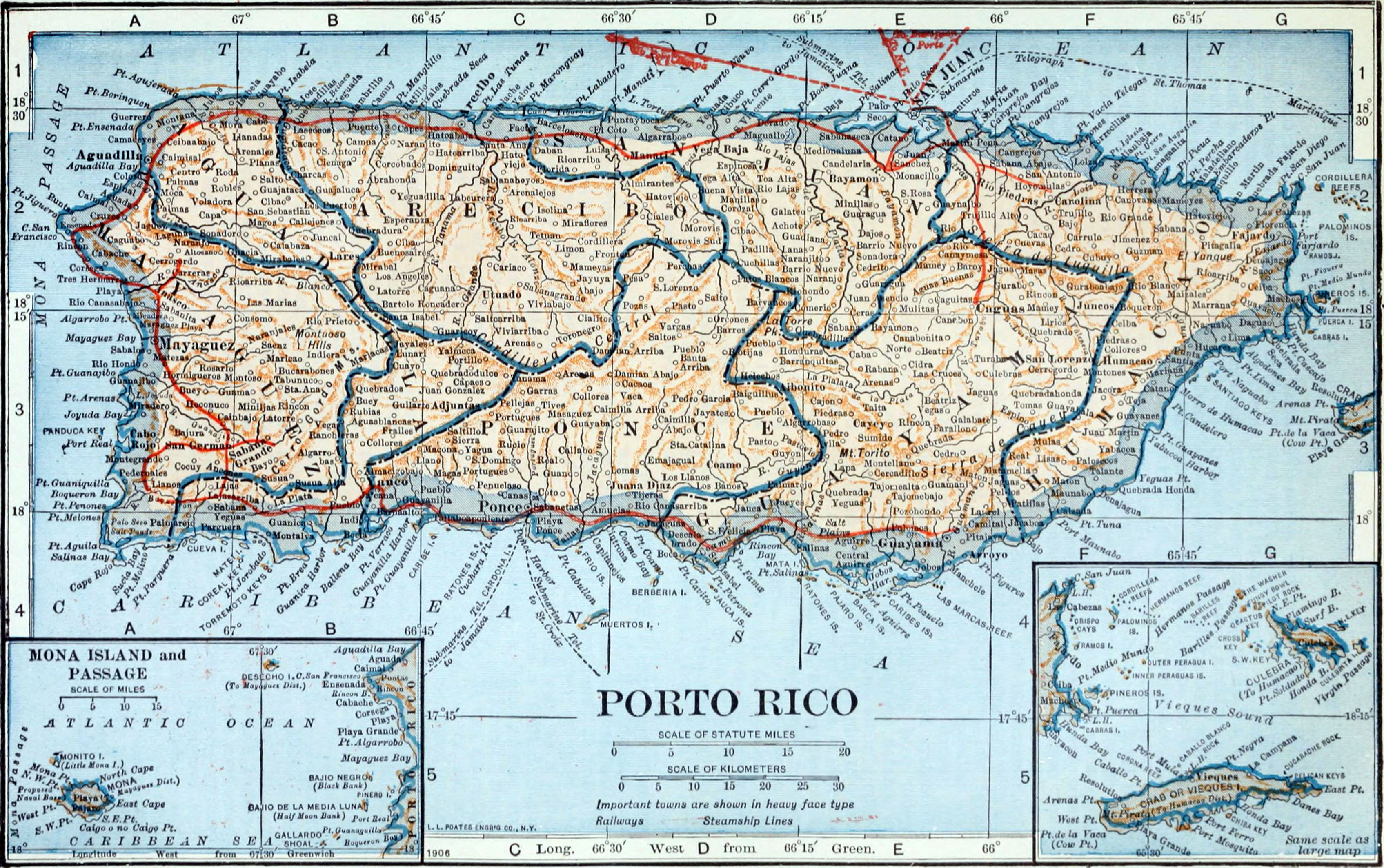 Topographical and political map of Puerto Rico with two insets: the left inset showing Mona Island and (unlabeled) Mona Passage; the right inset showing the Puerto Rican Virgin Islands.